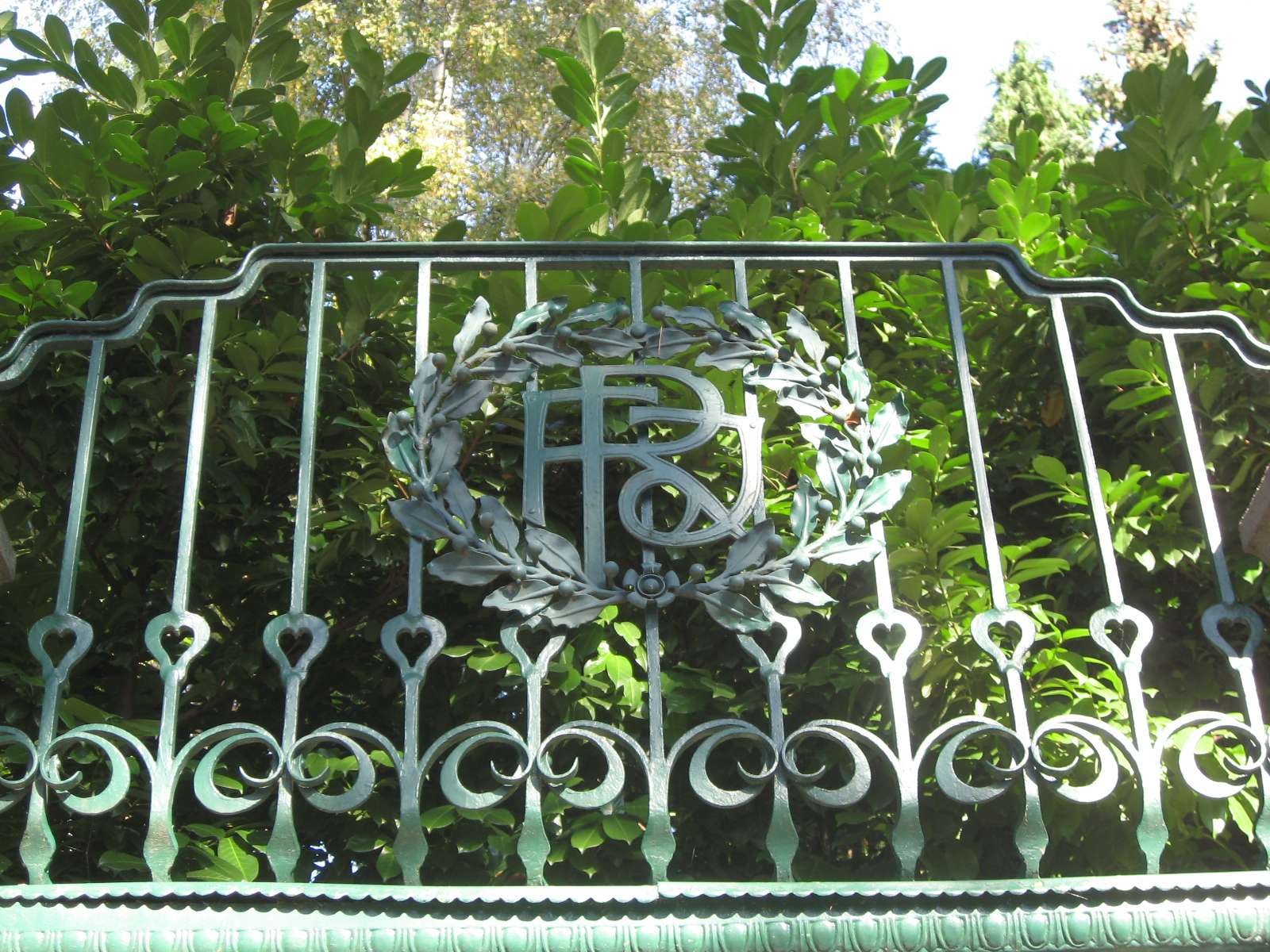 Fence of the former Villa Regenstreif in Vienna with a monogram.